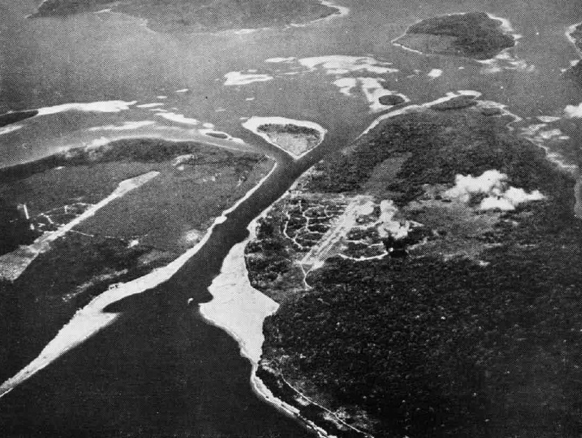 An aerial photograph of the Buka Passage between Bougainville (left) and Buka (right) islands in the Solomon Islands in 1943. Two Japanese airfields are visible, Buka airfield (center) and Bonis airfield (left). Today Buka airfield is Bougainville's major airport whereas Bonis is disused since the Second World War.